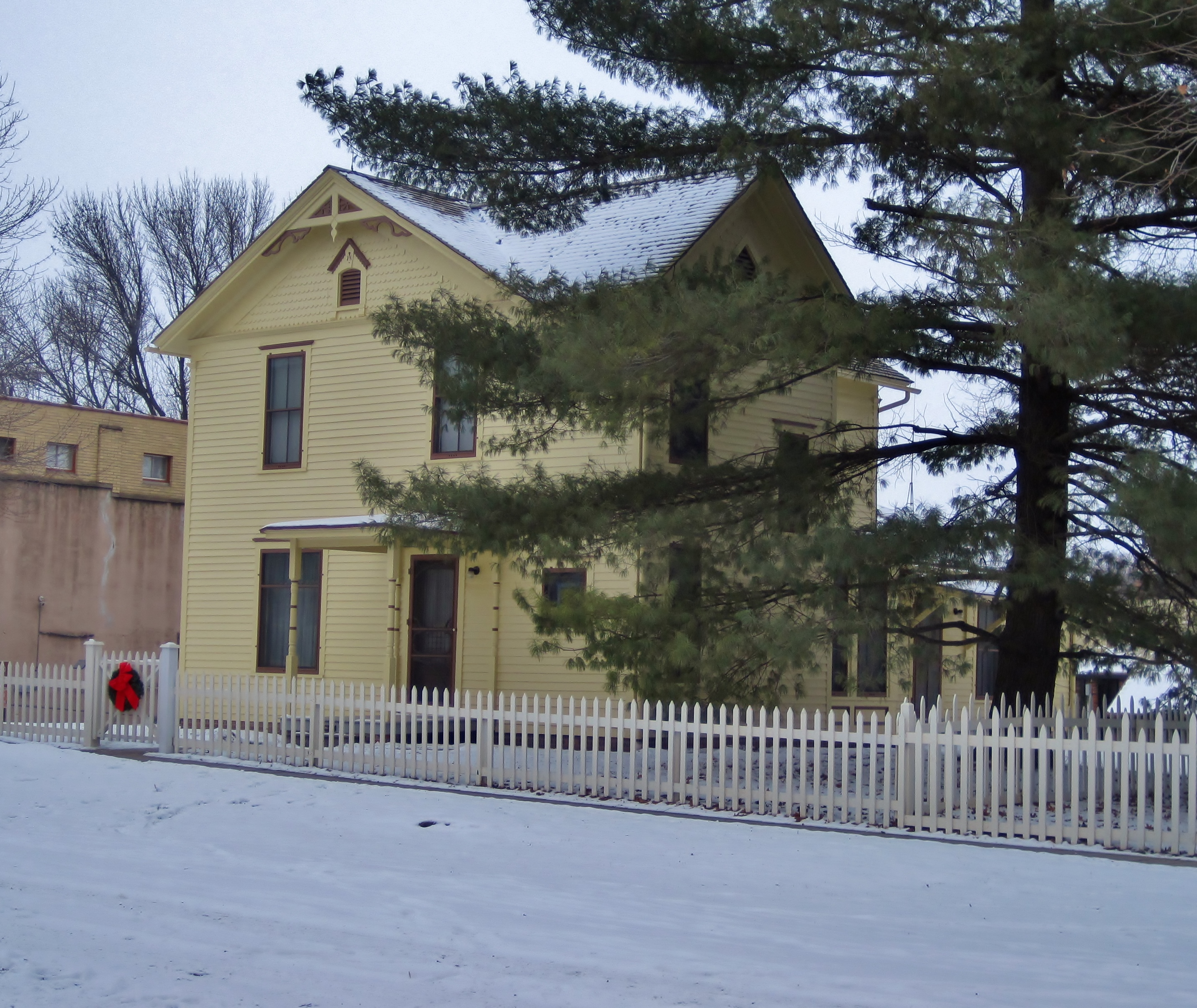 Laban Miles House at Herbert Hoover National Historic Site in West Branch, IA (1870)